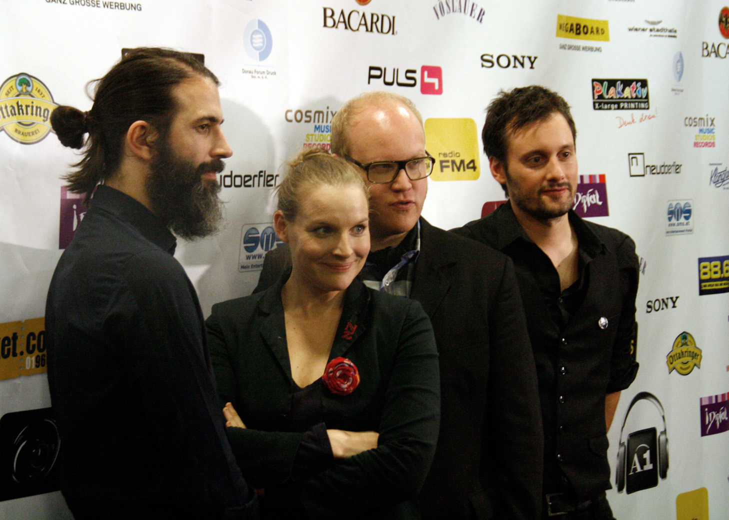 Wir sind Helden at the Amadeus Austrian Music Award 2010 (Wiener Stadthalle, Vienna, Austria)